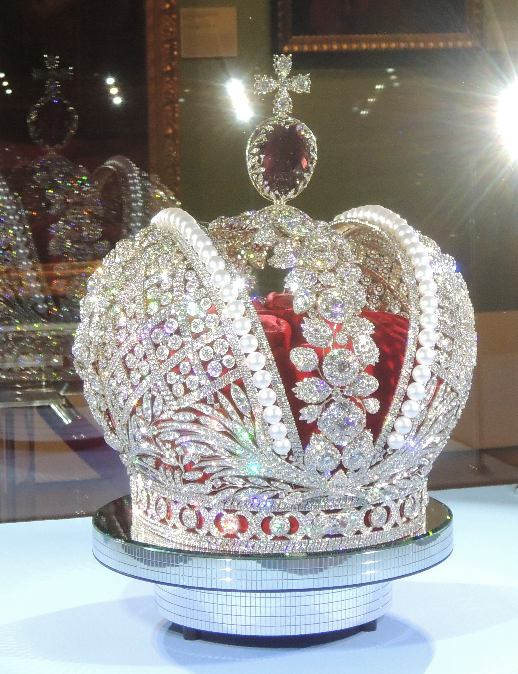 Jewelry project "Creation of Imperial Crown of Russia in modern interpretation" The project is timed to celebrate the 50th anniversary of the diamond industry in Russia, the flagship of which is manufacturer Kristall and it is the 10th anniversary of the Smolensk Diamonds group. The new crown was made of white gold (in original is used silver) and 11,426 diamonds (in original 4,936) of ideal faceting and quality characteristics. The spinel in the replica was replaced with a unique natural red tourmaline with a mass of about 400 karats. Read more